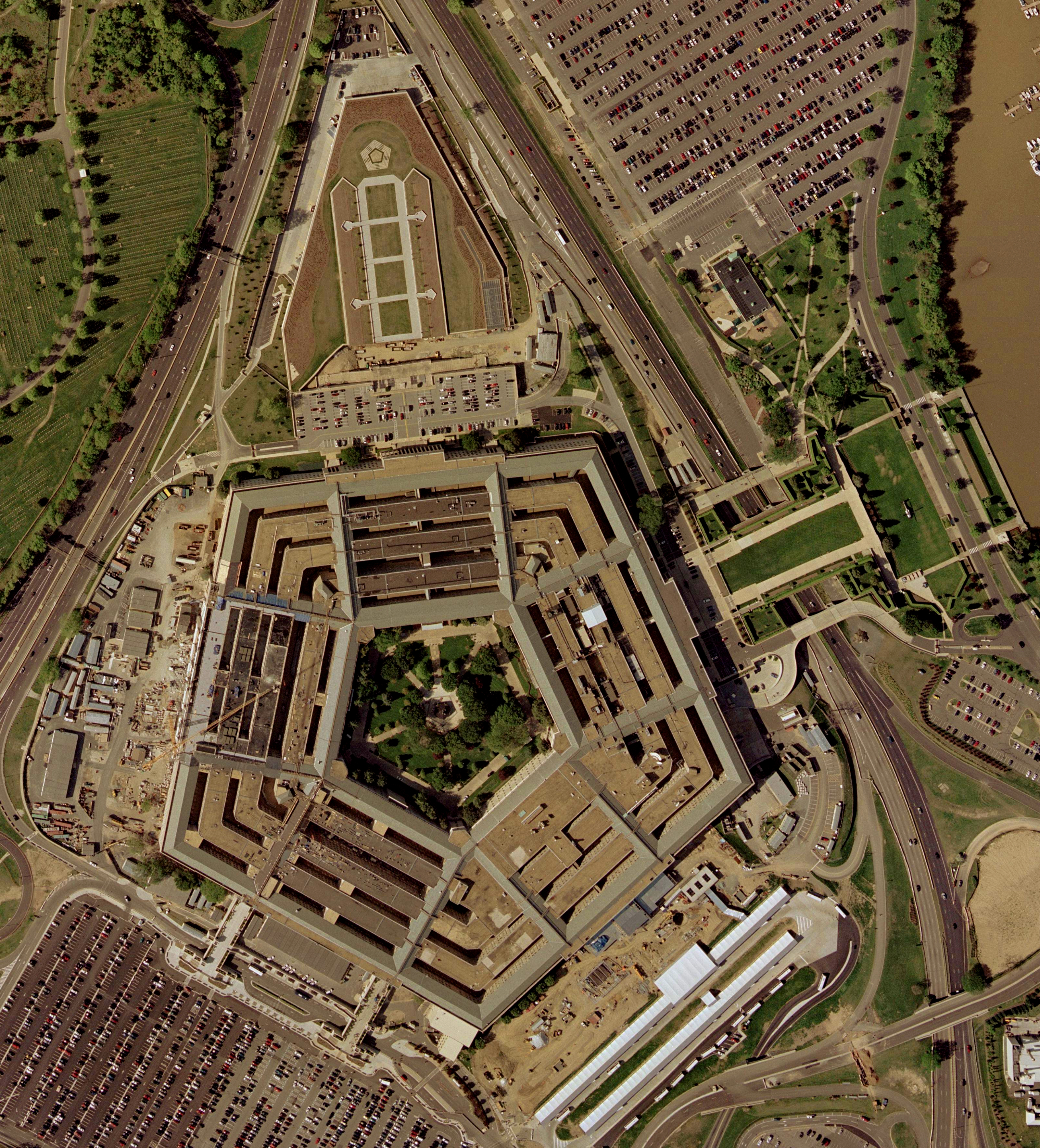 Aerial view of The Pentagon